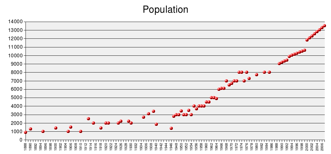 Nauru's population